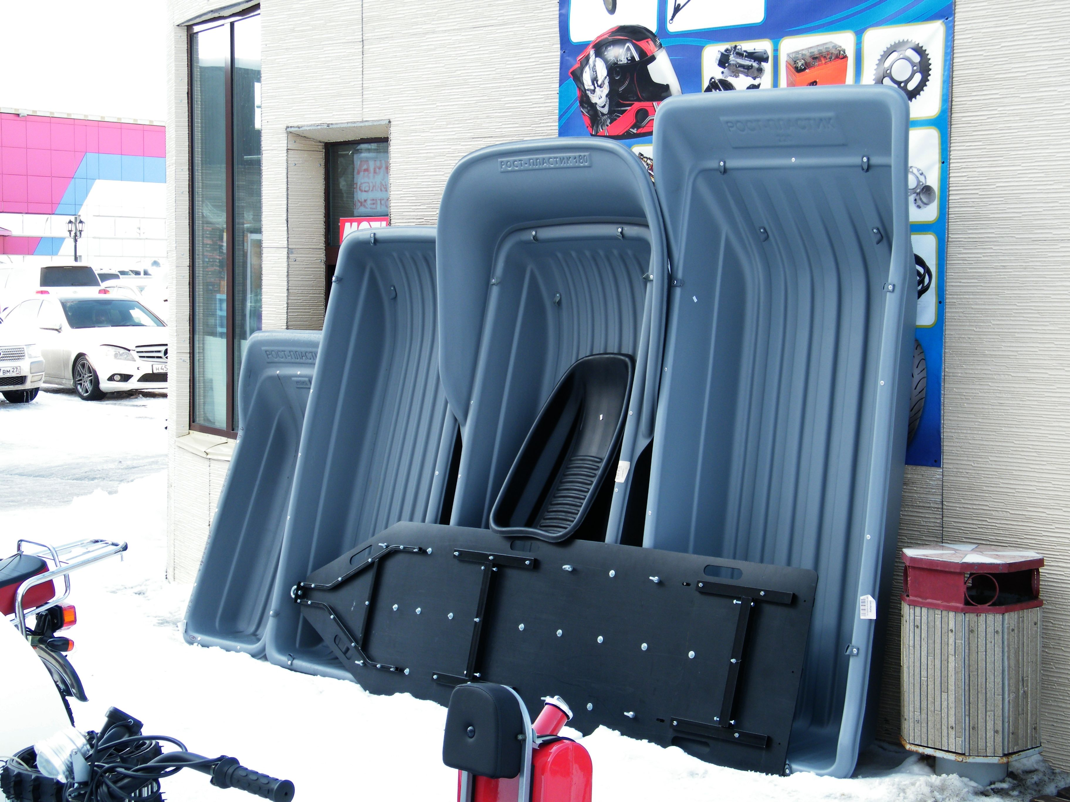 Snowmobiles in Russia